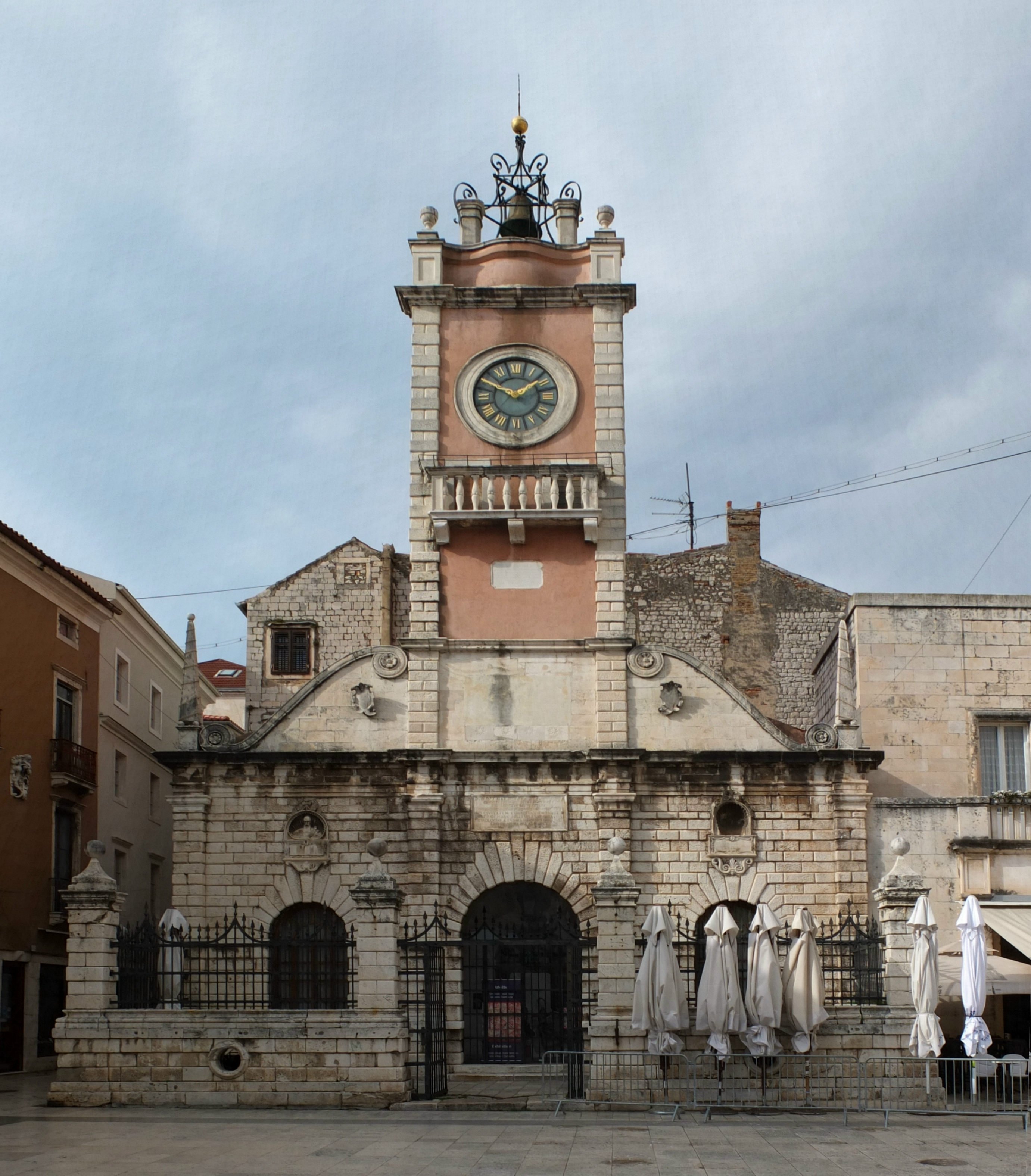 City Sentinel (Gradska straza) in People's Square, Zadar, Croatia, view from SW